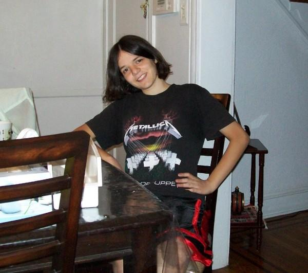 Iliriana Elshani smiling at the table.